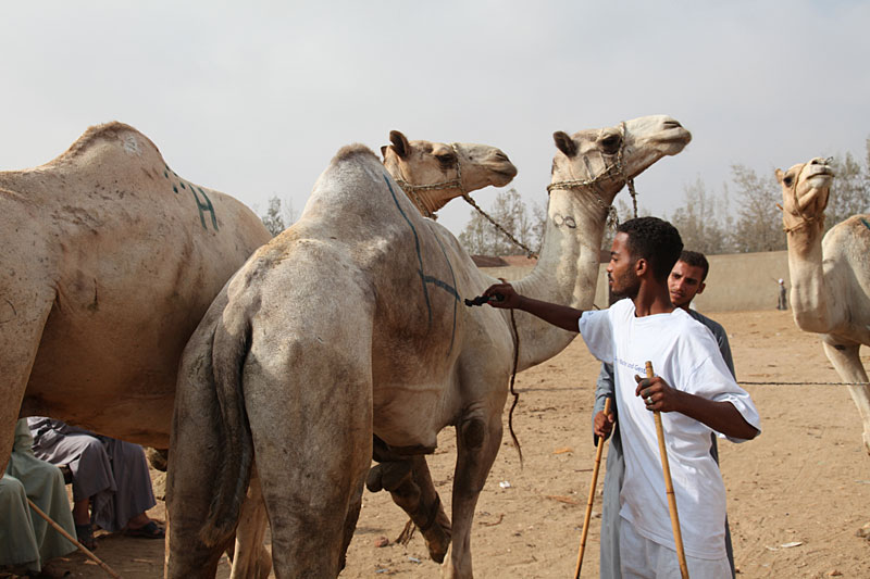 Camel market at Birqash